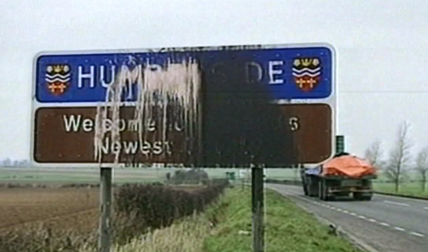 Humberside county sign defaced circa 1992